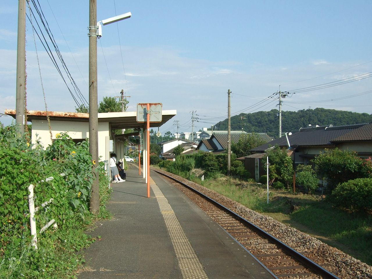 Nakataku Station, Karatsu Line, JR Kyushu.